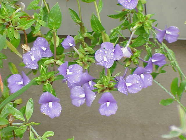 Species: Galvezia speciosa Family: Scrophulariaceae Image No. 5